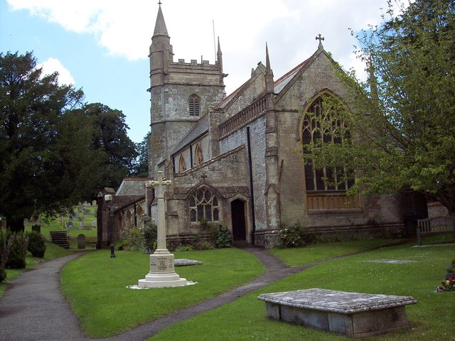 St Peter's Church, Pimperne Pimperne is recorded in the Domesday Book and the name itself comes from the Celtic 'pimp pren', meaning five trees.